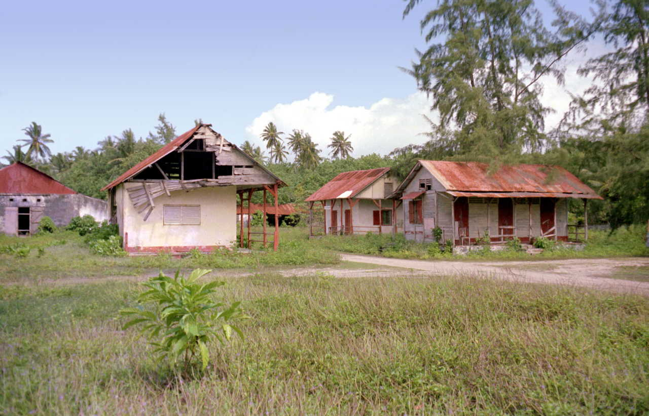 Former coconut plantation on Diego Garcia, out of use since 1970. The buildings have now been restored.